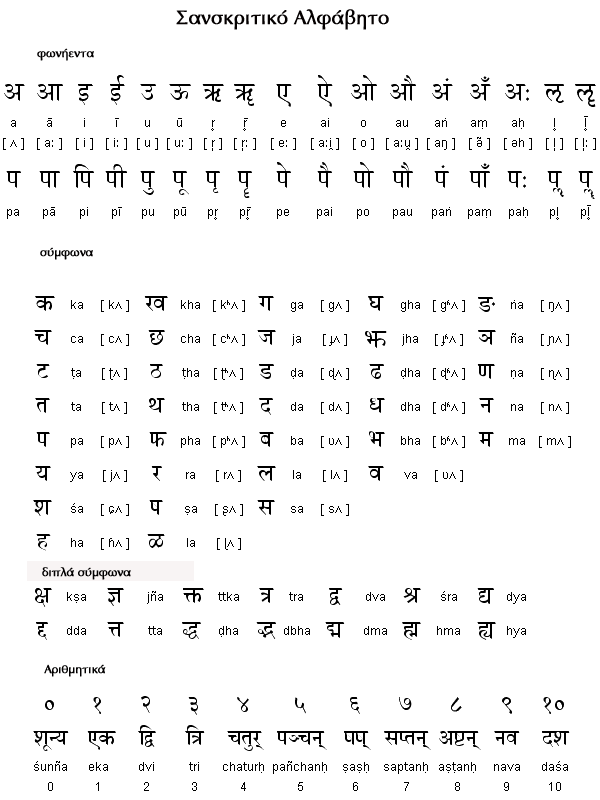 Sanskrit alphabet with greek subtitles